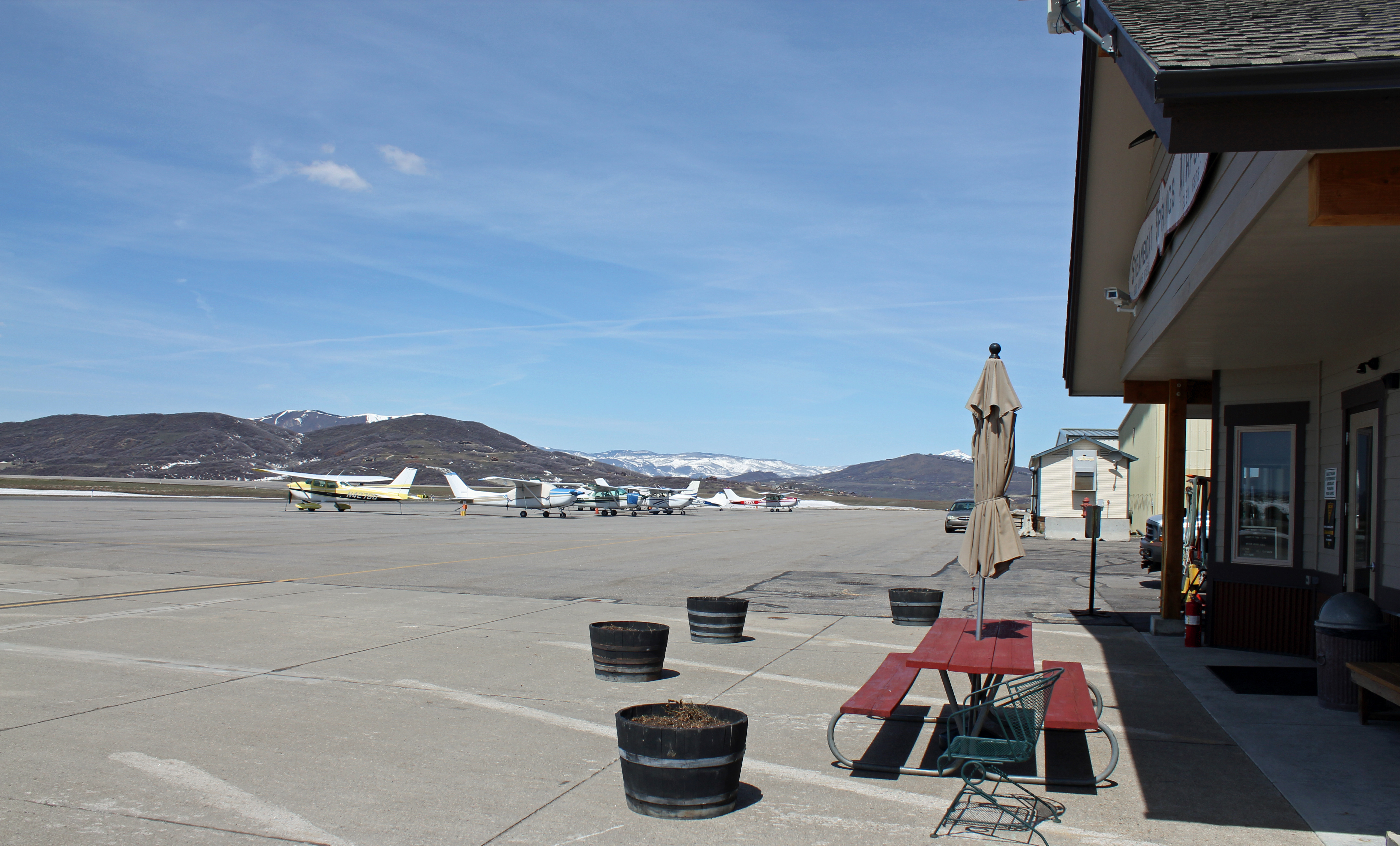 The Steamboat Springs Airport, located at 3499 Airport Circle in Steamboat Springs, Colorado. The airport is also called Bob Adams Field.